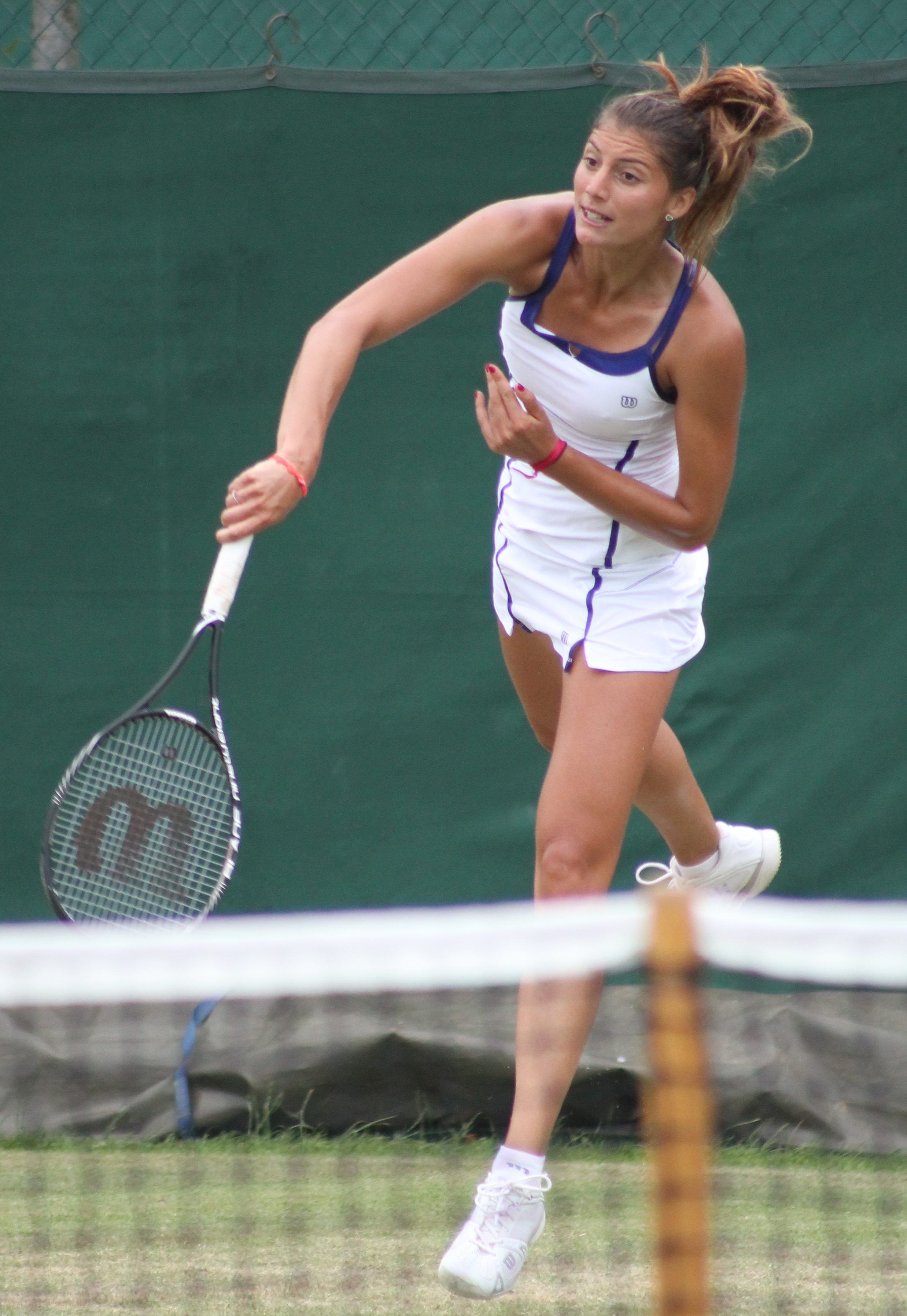 Corinna Dentoni, 2013 Wimbledon Qualifying Tournament